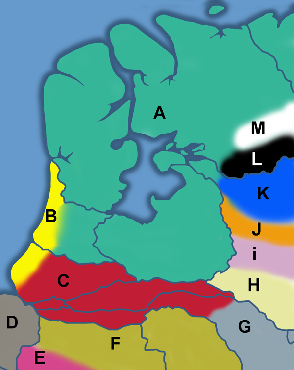 Tribes in the first century in the Netherlands